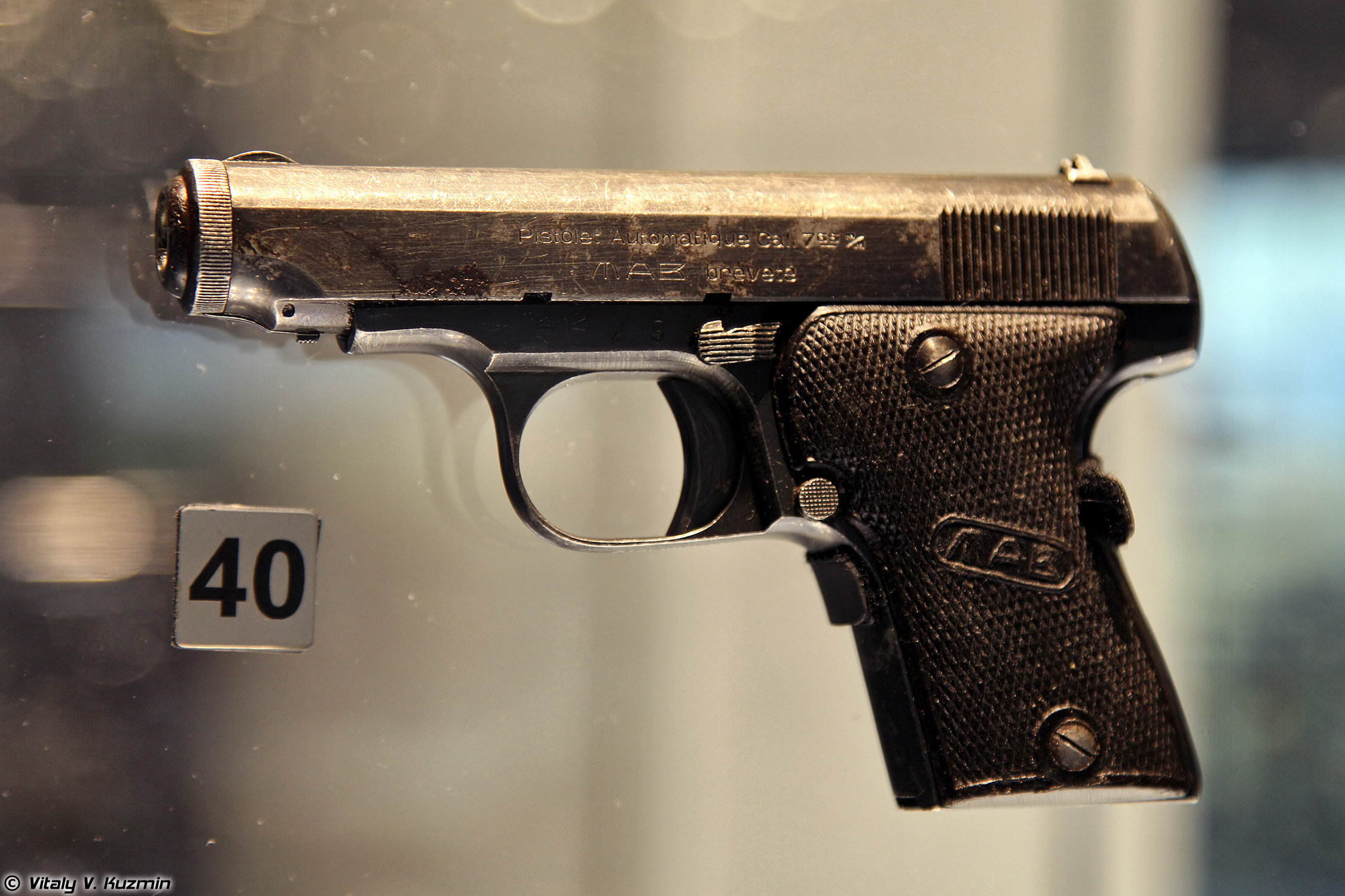 MAB model C